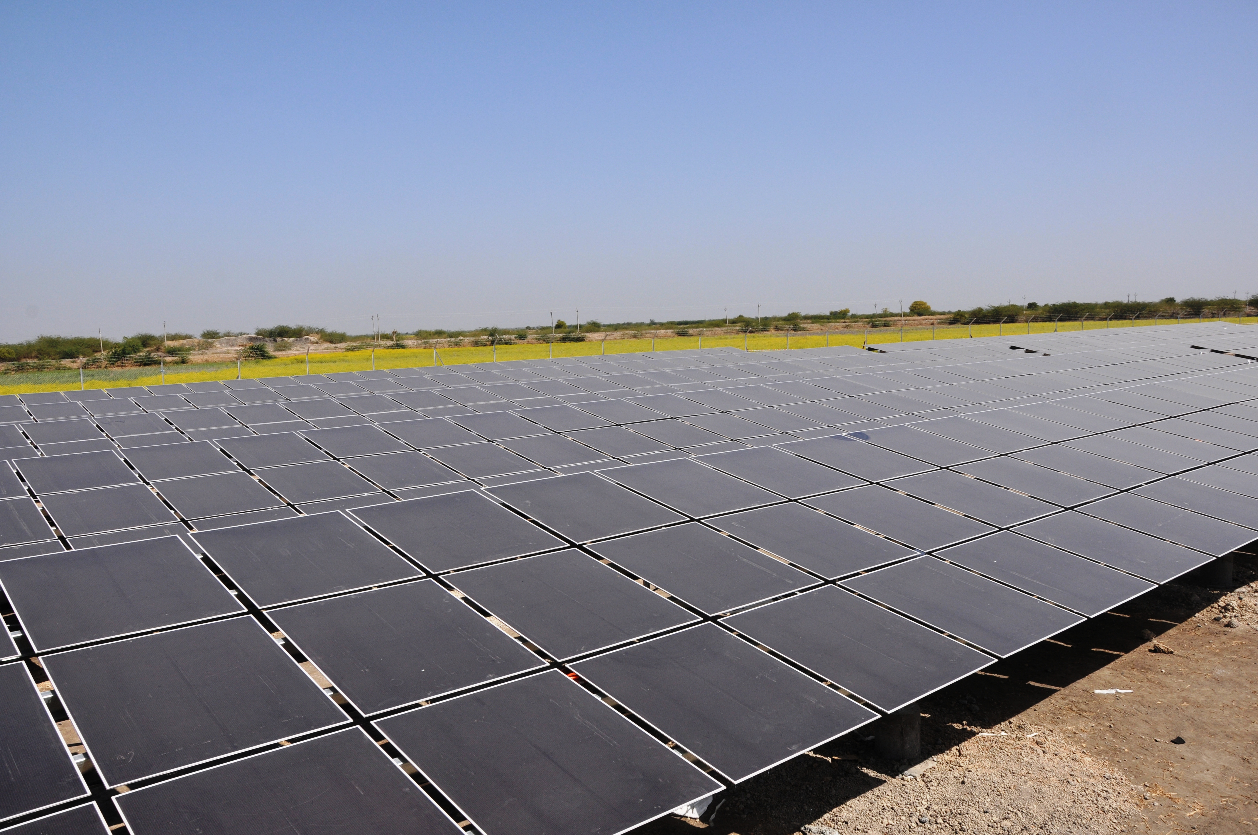 Astonfield Renewables' 11.5 MW solar plant in Patan, Gujarat.